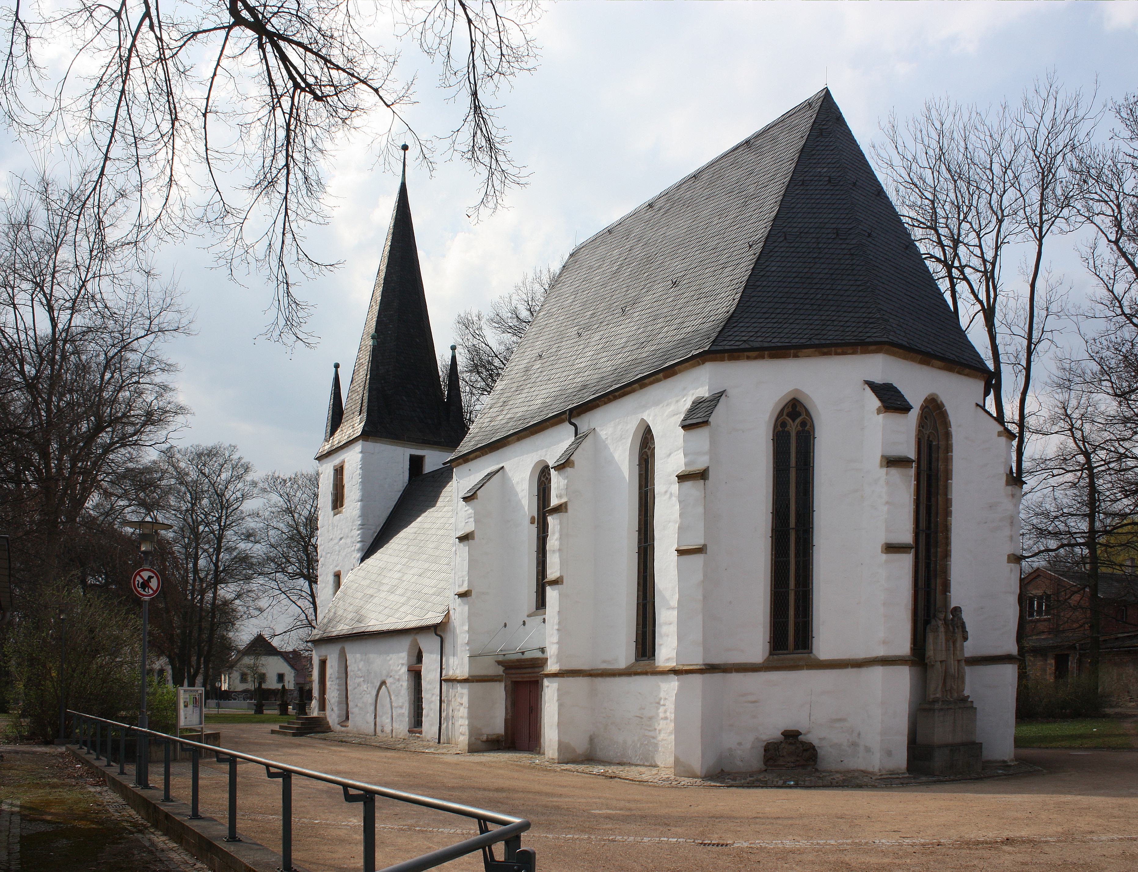 Sangerhausen, the Church of St. Mary